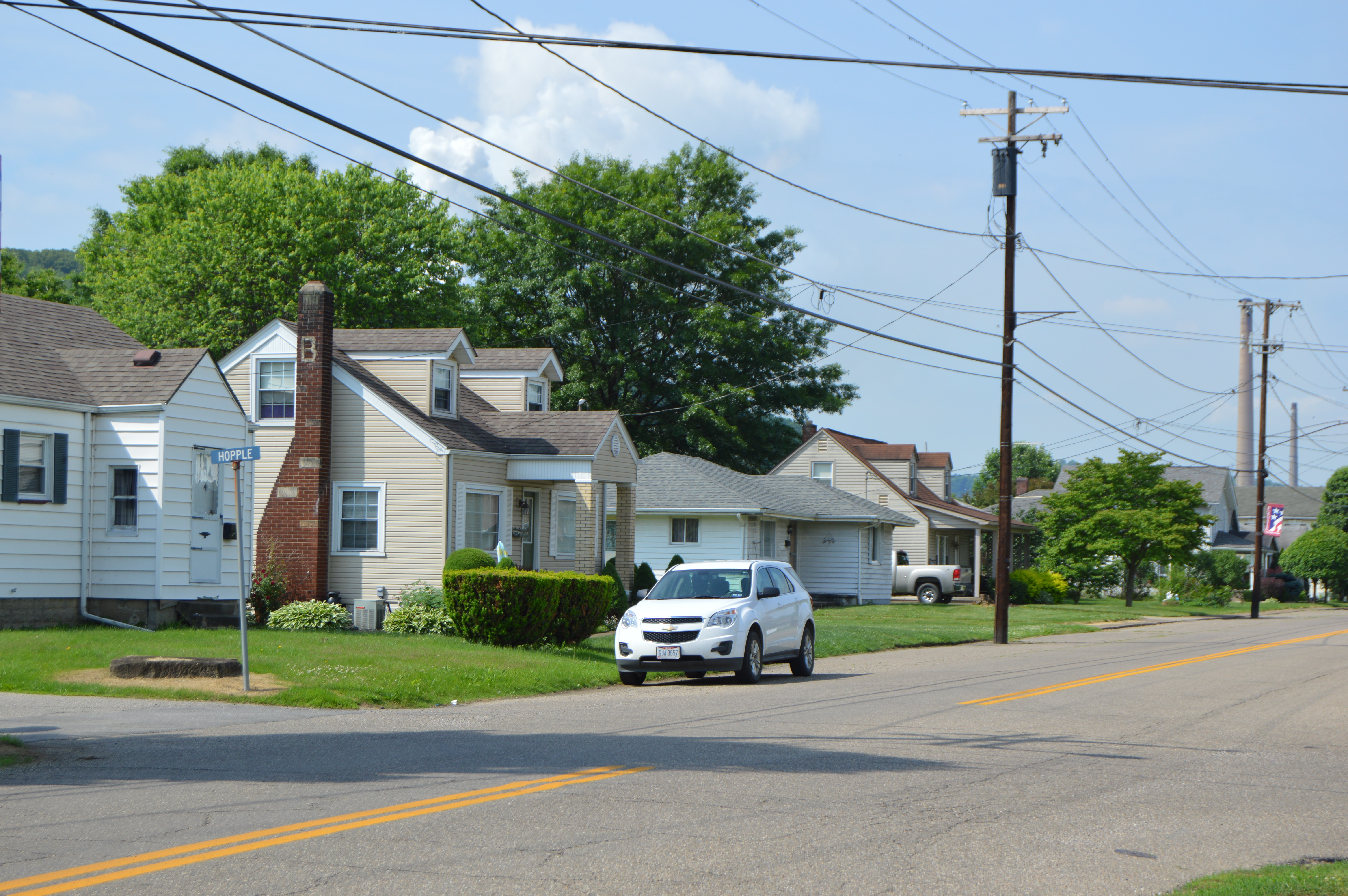 Houses on the southeastern side of Main Street at the Hopple Street intersection in Powhatan Point, Ohio, United States.